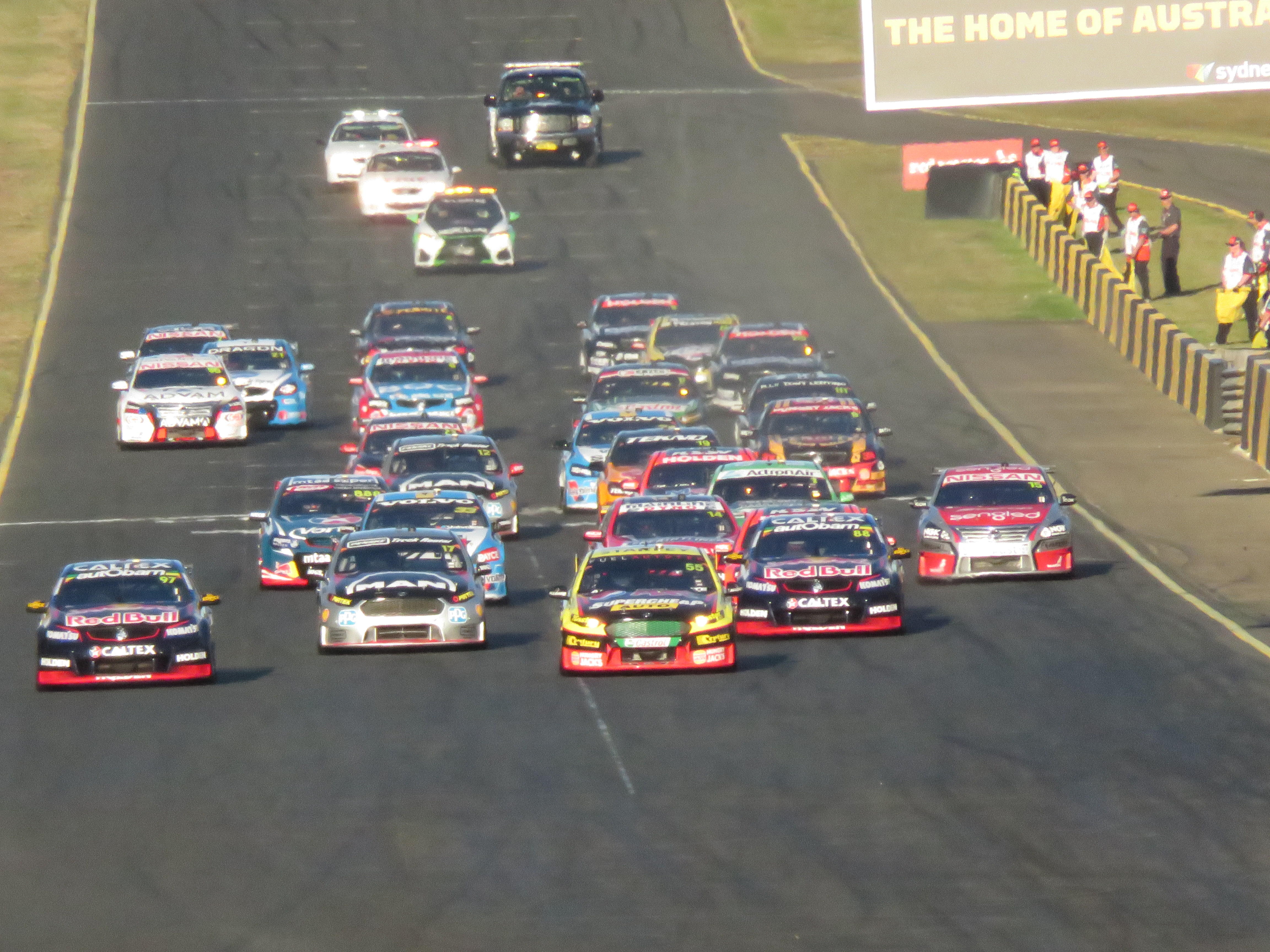 Start of Race 18 of the 2016 Supercars Championship at the 2016 Red Rooster Sydney SuperSprint at Sydney Motorsport Park